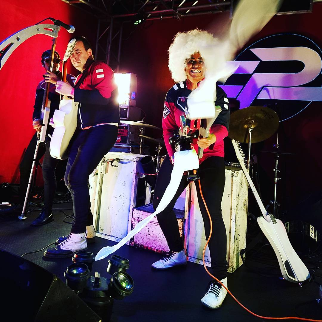 The Phenomenauts - Band member Ripley Clipse demonstrates use of the Streamerator 2000 - a custom-built motorized toilet paper launcher. From right to left: Ripley Clipse, Angel Nova, and Atom Bomb. Photo by Erica Dominguez.